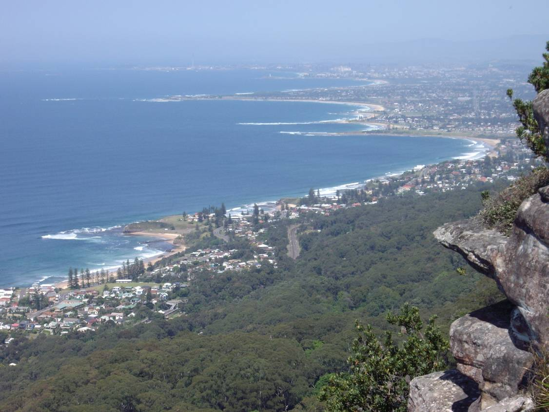 View from the Escarpment above Wombarra over the northern Illawarra showing Austinmer, Thirroul, Bulli, Wollongong up to Port Kembla in the far.